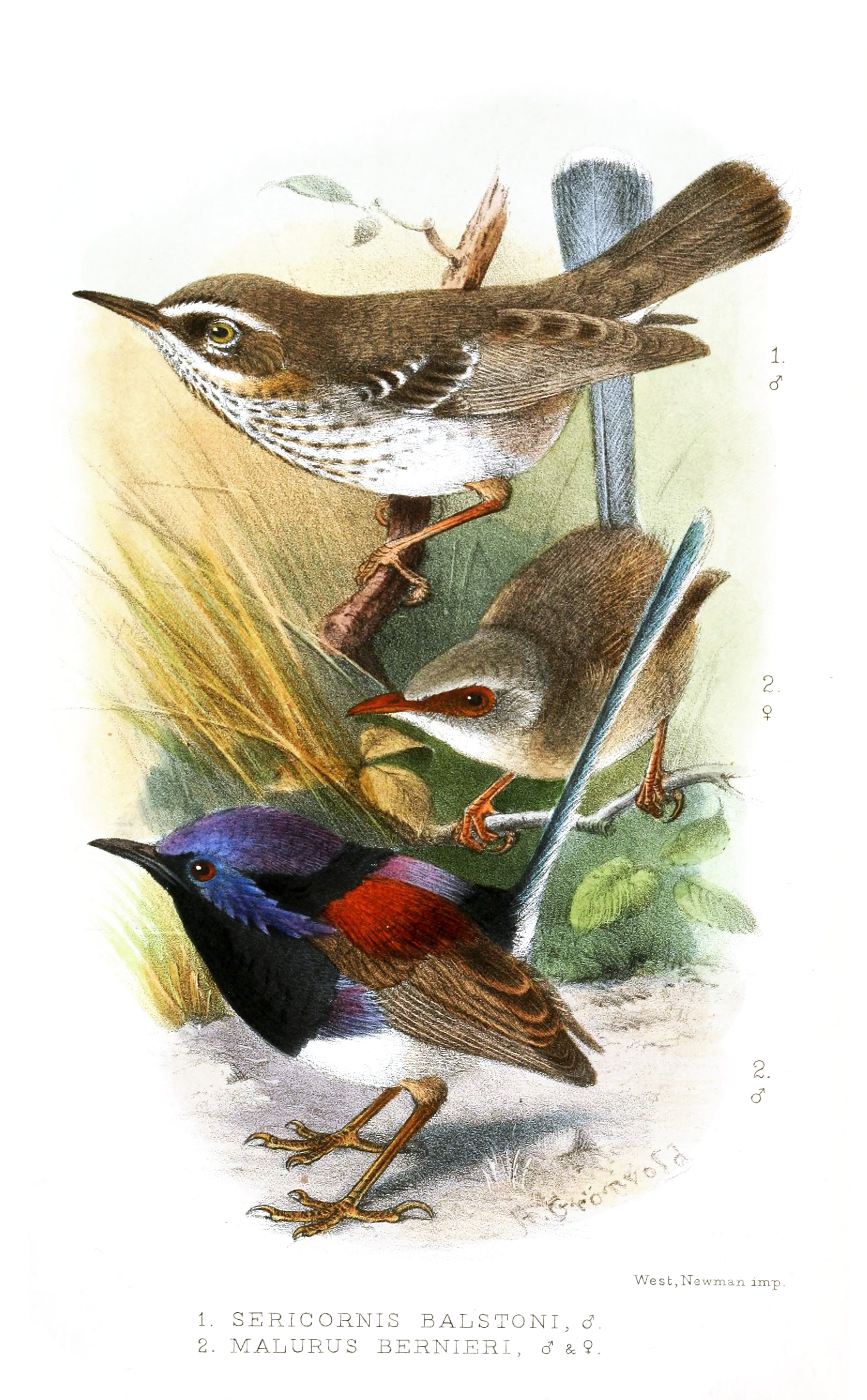 Sericornis balstoni = Sericornis frontalis Malurus bernieri = Malurus lamberti bernieri